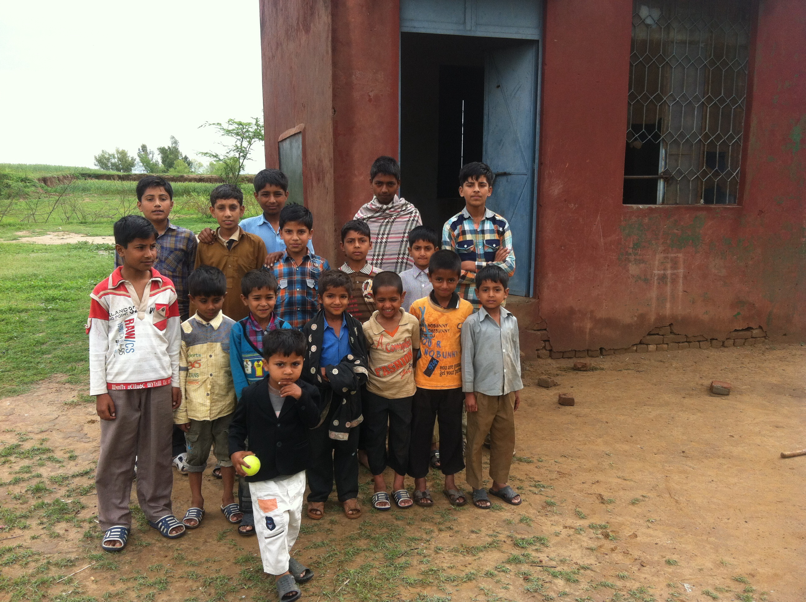 Talent of Gorsial